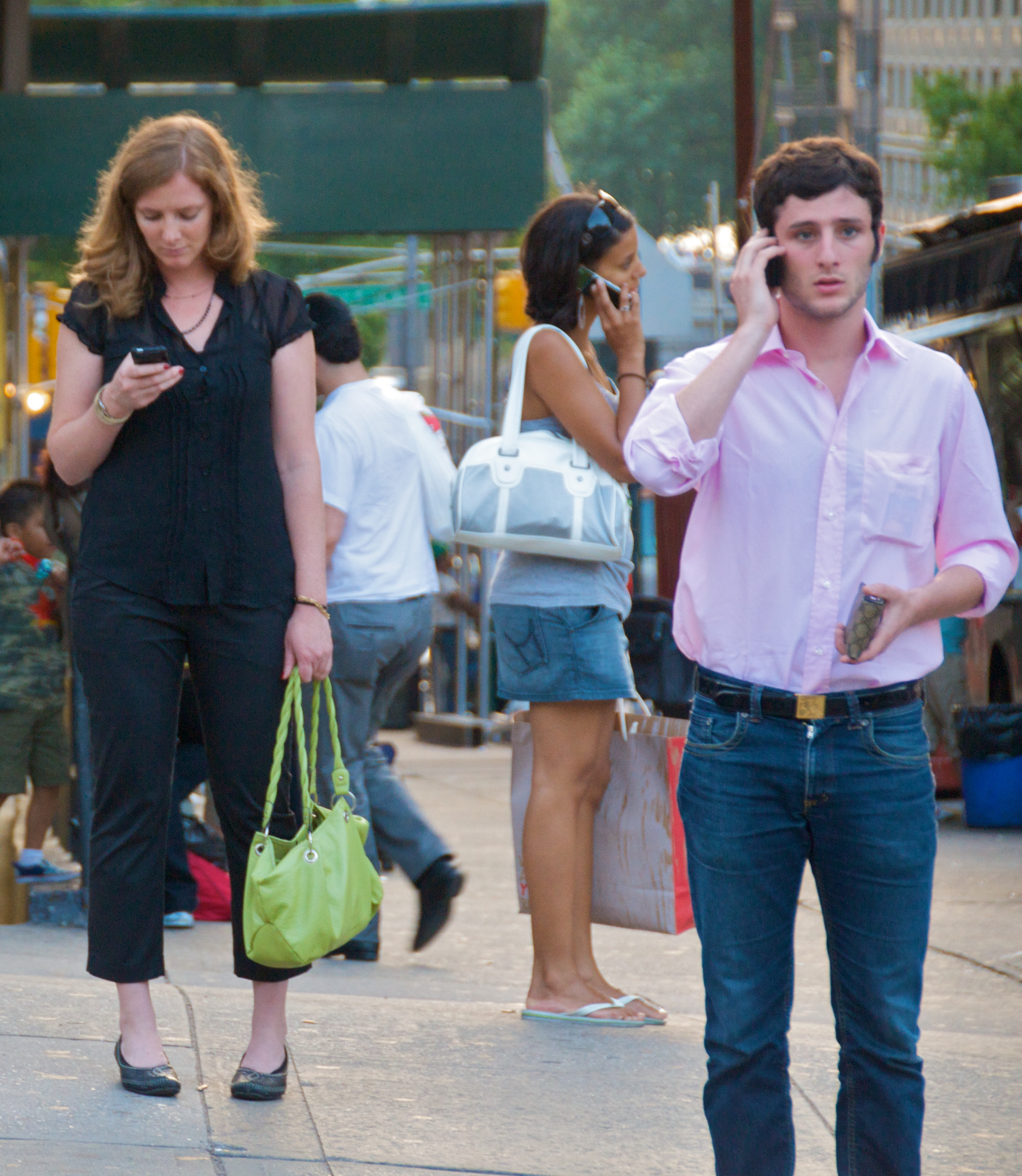 This was taken on the southwest corner of Broadway and 96th Street.